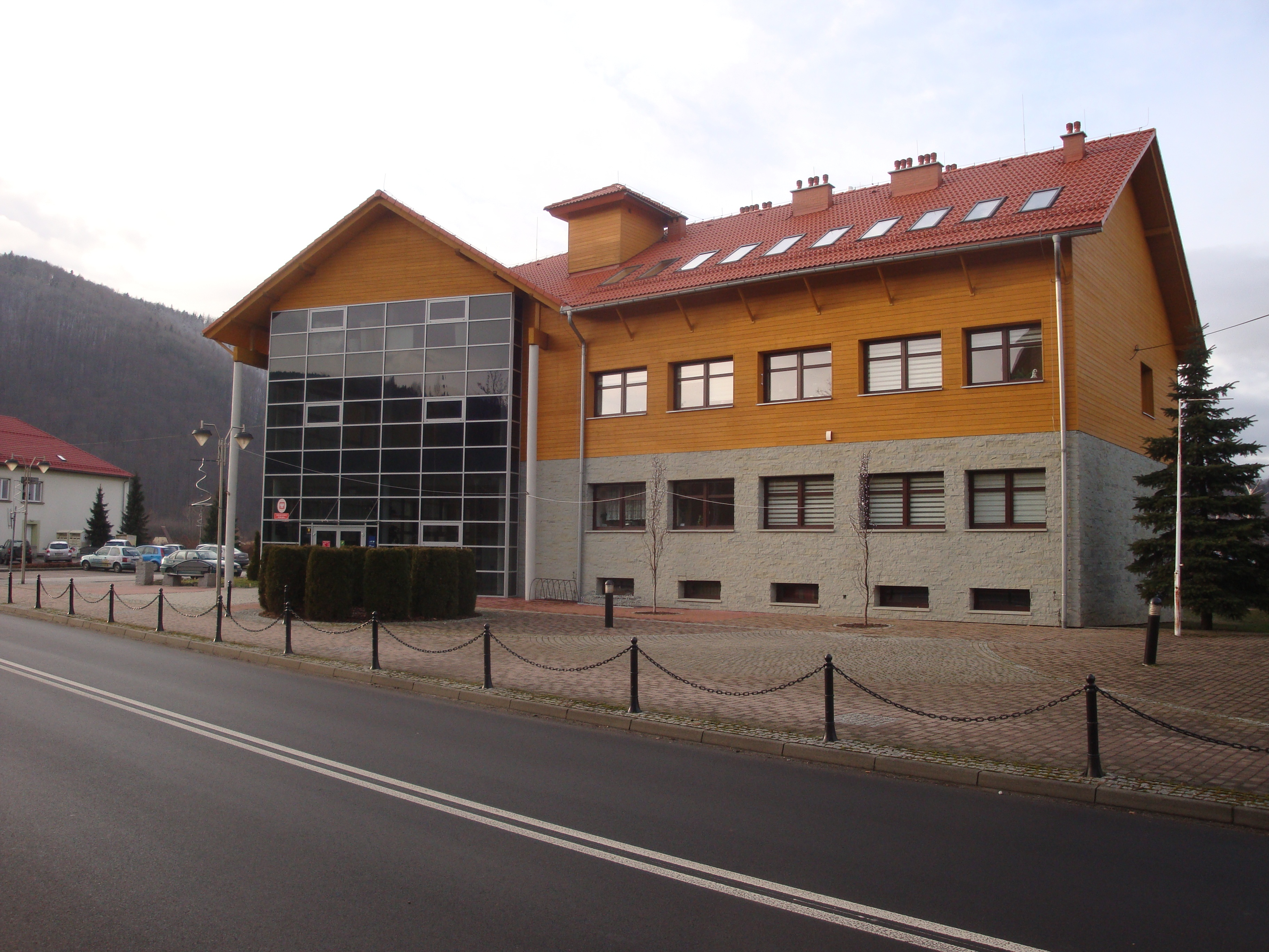 Porąbka - village in Silesian Voivodeship, Poland. Building of muinicypality office.